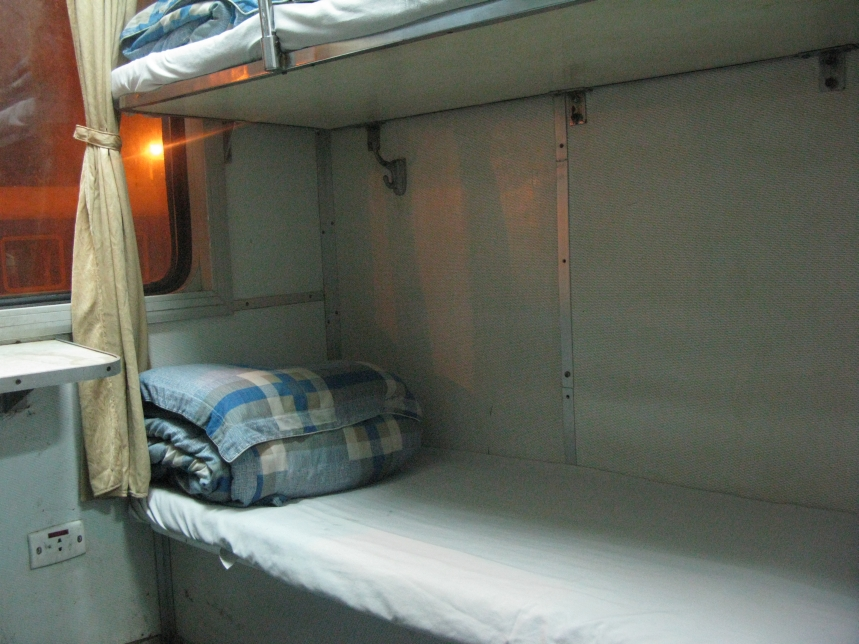 Vietnam Railways TN passenger coach